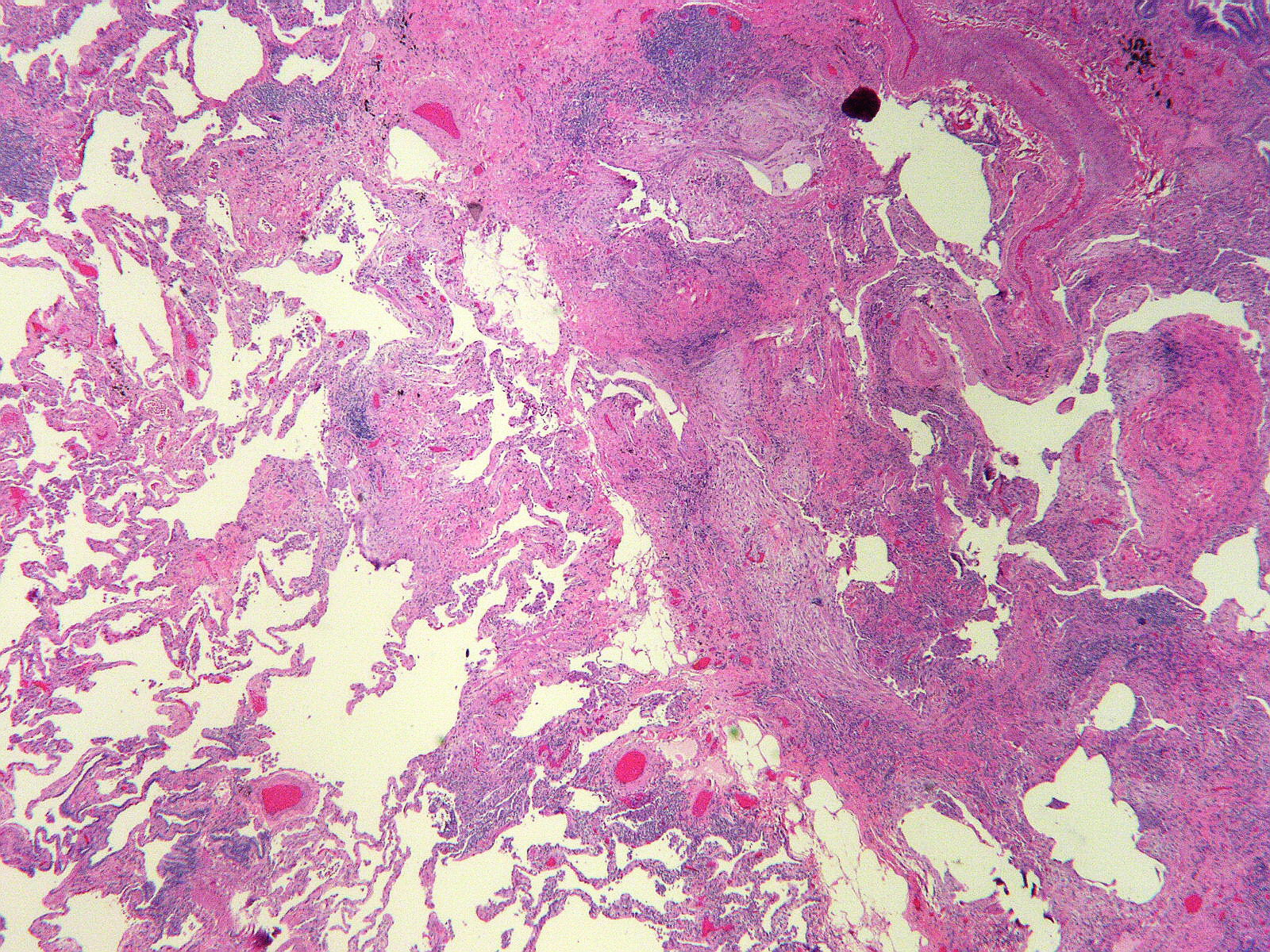 UIP (Usual interstitial pneumonia) Typical low magnification appearance of UIP with areas of varying appearance. On the left there are relatively normal alveoli. In the center there is interstitial fibrosis and inflammation. To the right of center there are fibroblastic foci and at the right side of the image there is dense consolidation. The term "temporal non-uniformity" is often used to describe this appearance. It appears that there are lesions of differing ages implying the the agent of injury responsible for these lesions is impacing the lung in episodic fashion over a prolonged period of time. See notes